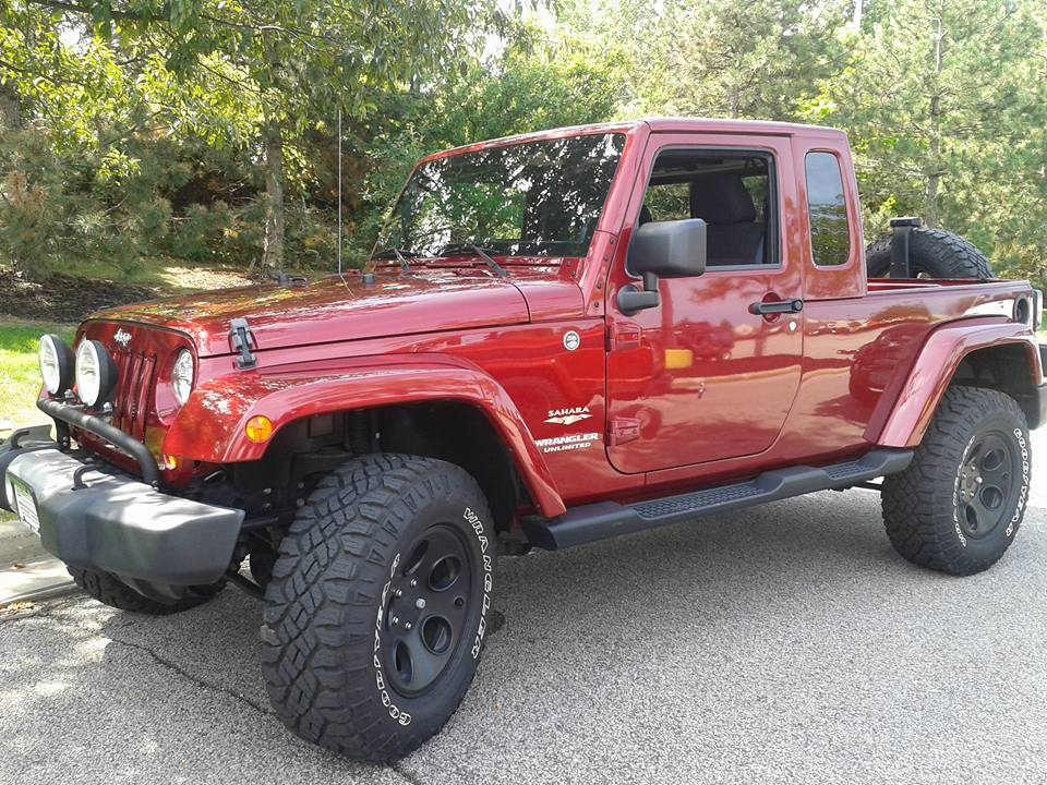 Pic via Kevin Robertson. Jeep JK8.